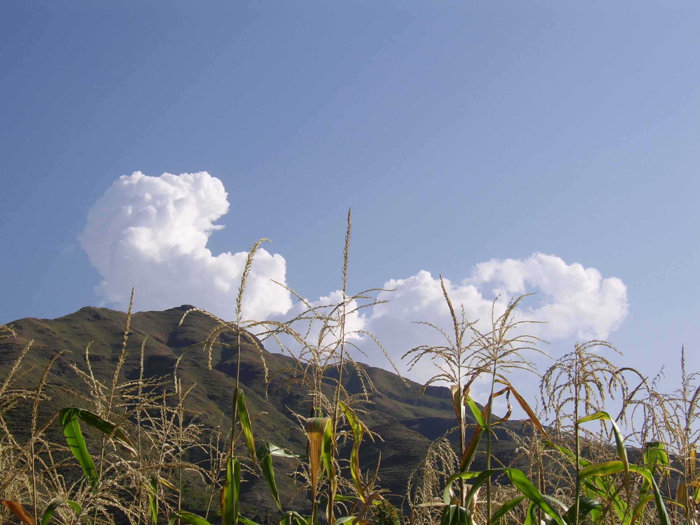 My village